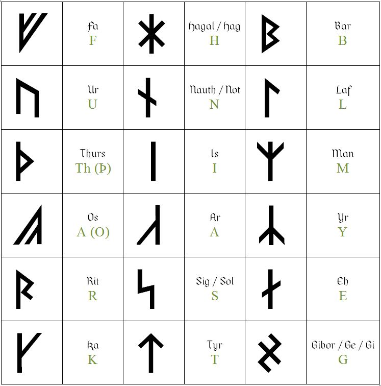 Table of Armanen Runes with names and sound values